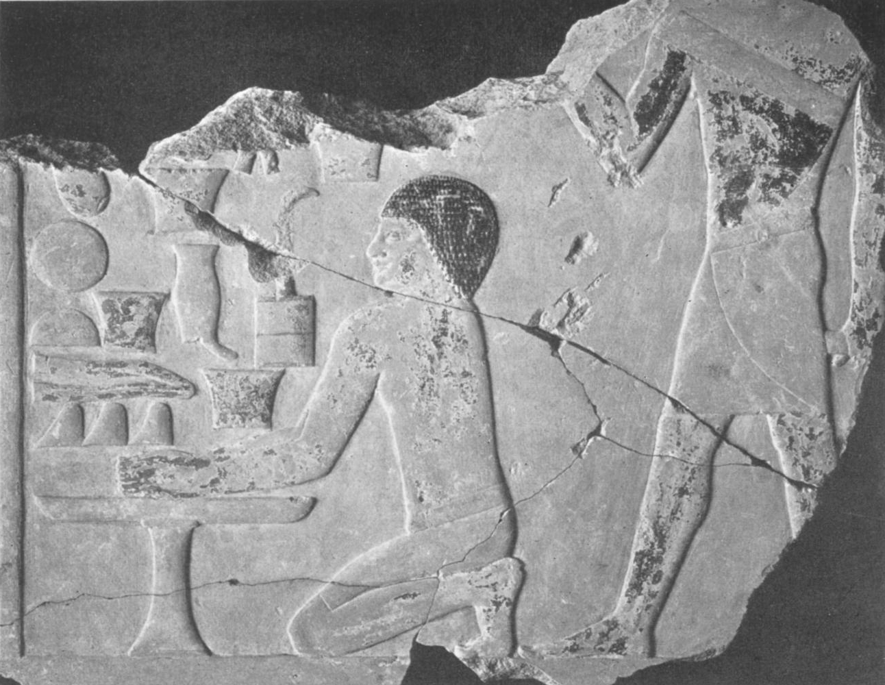 Relief fragment with offering scene from the mortuary temple of the Pyramid of Senusret I